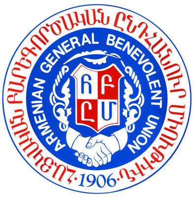 Emblems of the AGBU family in Cyprus.